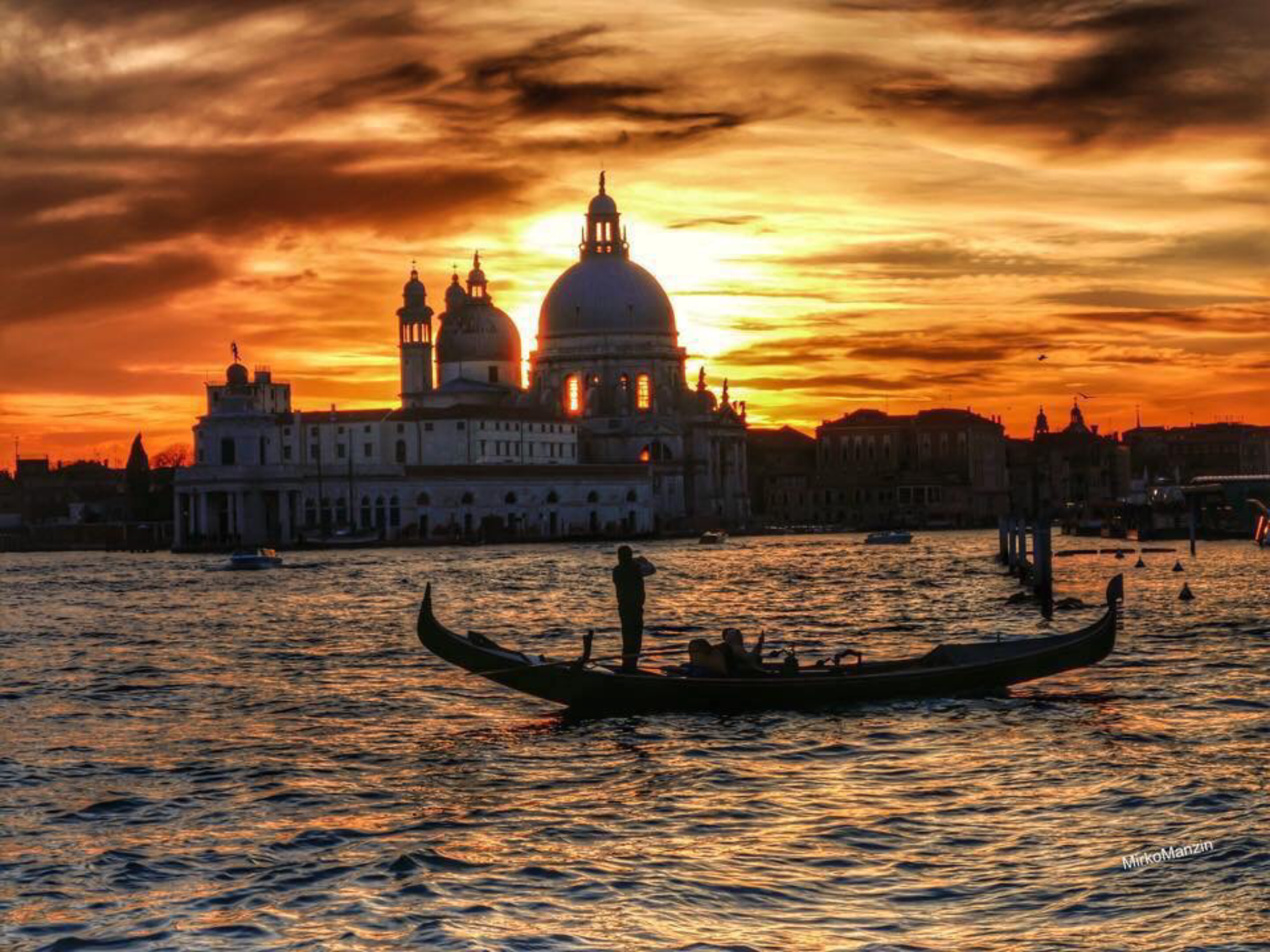 Gondola Basilica Salute Ph Mirko Manzin